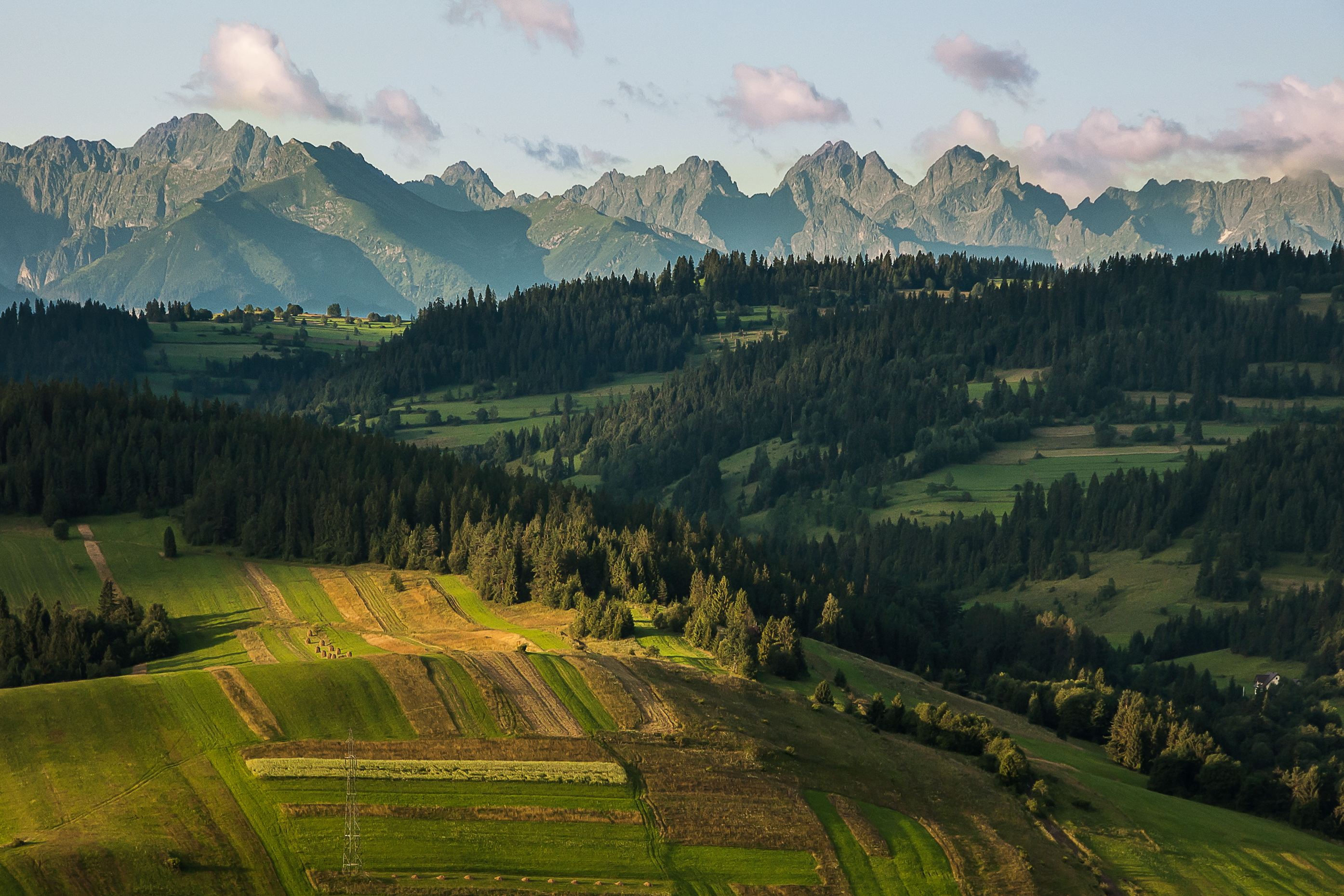 High Tatras as seen from the Polish Spisz. Tatry Natura 2000 Special Area of Conservation. Lesser Poland Voivodeship, Poland